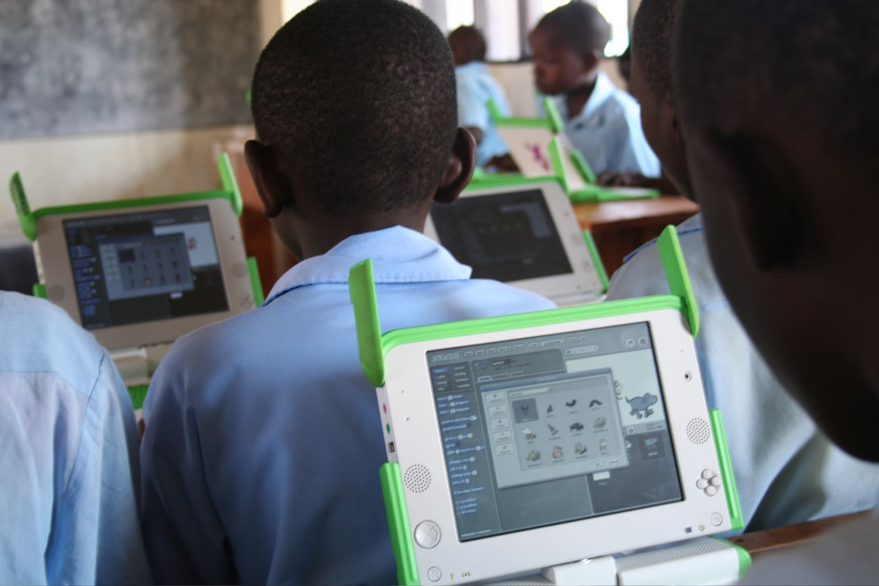 One Laptop per Child at Kagugu Primary School, Kigali, Rwanda.